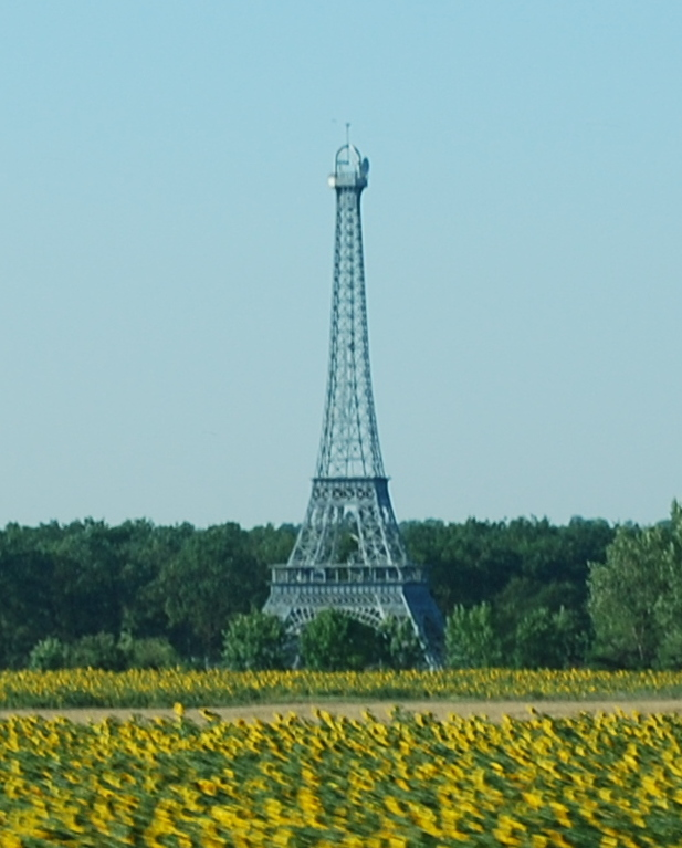 Eiffel tower replica on Viorel Alexandru's estate, near Slobozia, Romania